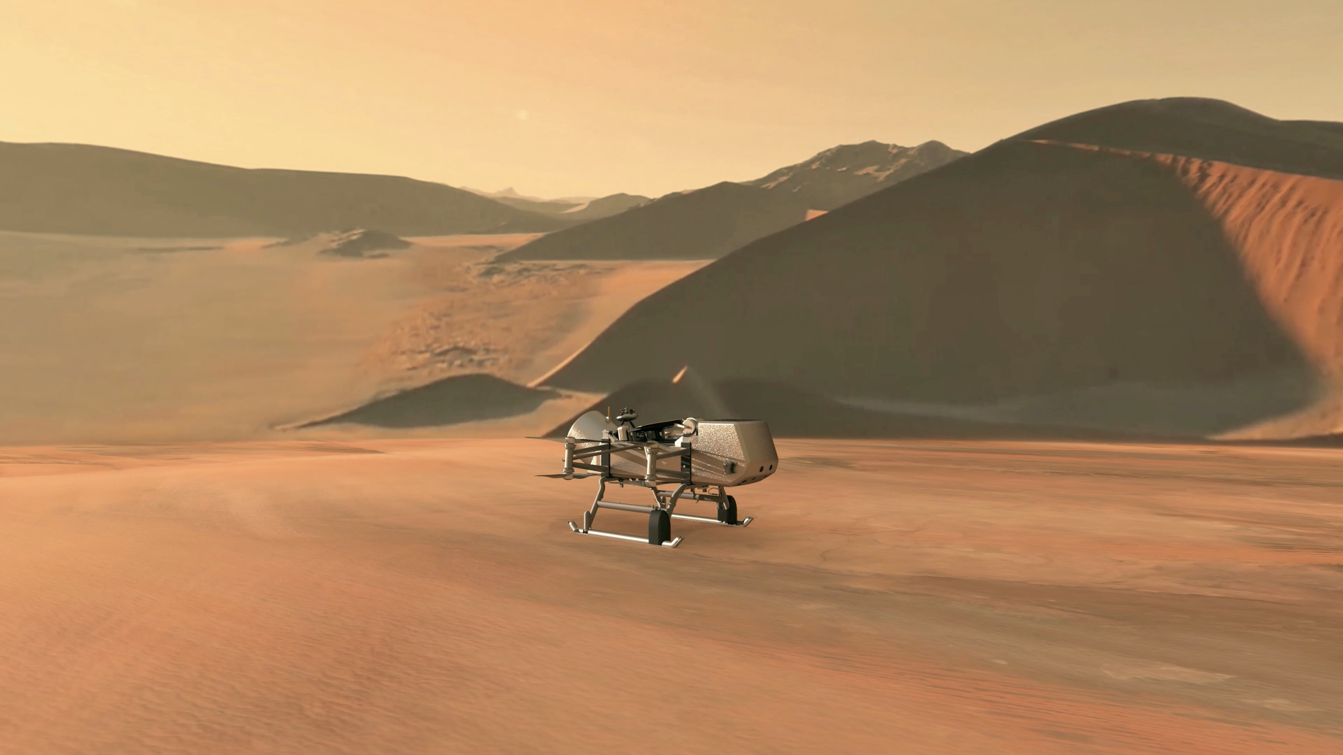 This illustration shows NASA’s Dragonfly rotorcraft-lander approaching a site on Saturn’s exotic moon, Titan. Taking advantage of Titan’s dense atmosphere and low gravity, Dragonfly will explore dozens of locations across the icy world, sampling and measuring the compositions of Titan's organic surface materials to characterize the habitability of Titan’s environment and investigate the progression of prebiotic chemistry.